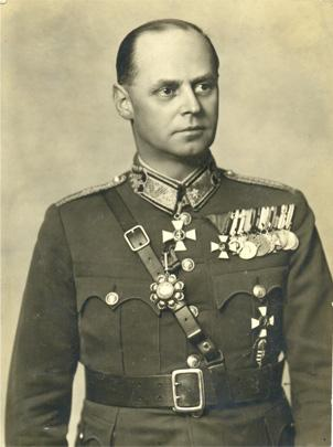 Kisbarnaki Ferenc Farkas was Chief Scout of the Hungarian Boy Scouts, commanding officer of the Royal Ludovika Akadémia, and General of the Hungarian Sixth Army during World War II.